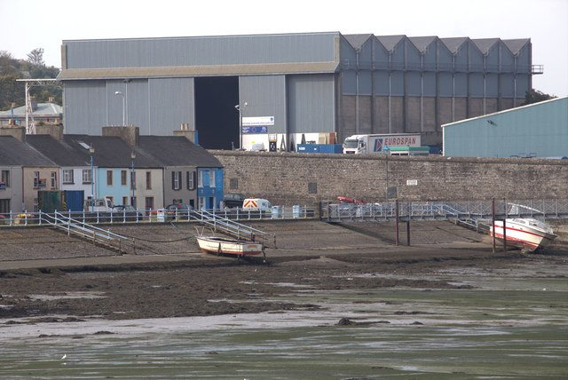 Western Sunderland Hangar